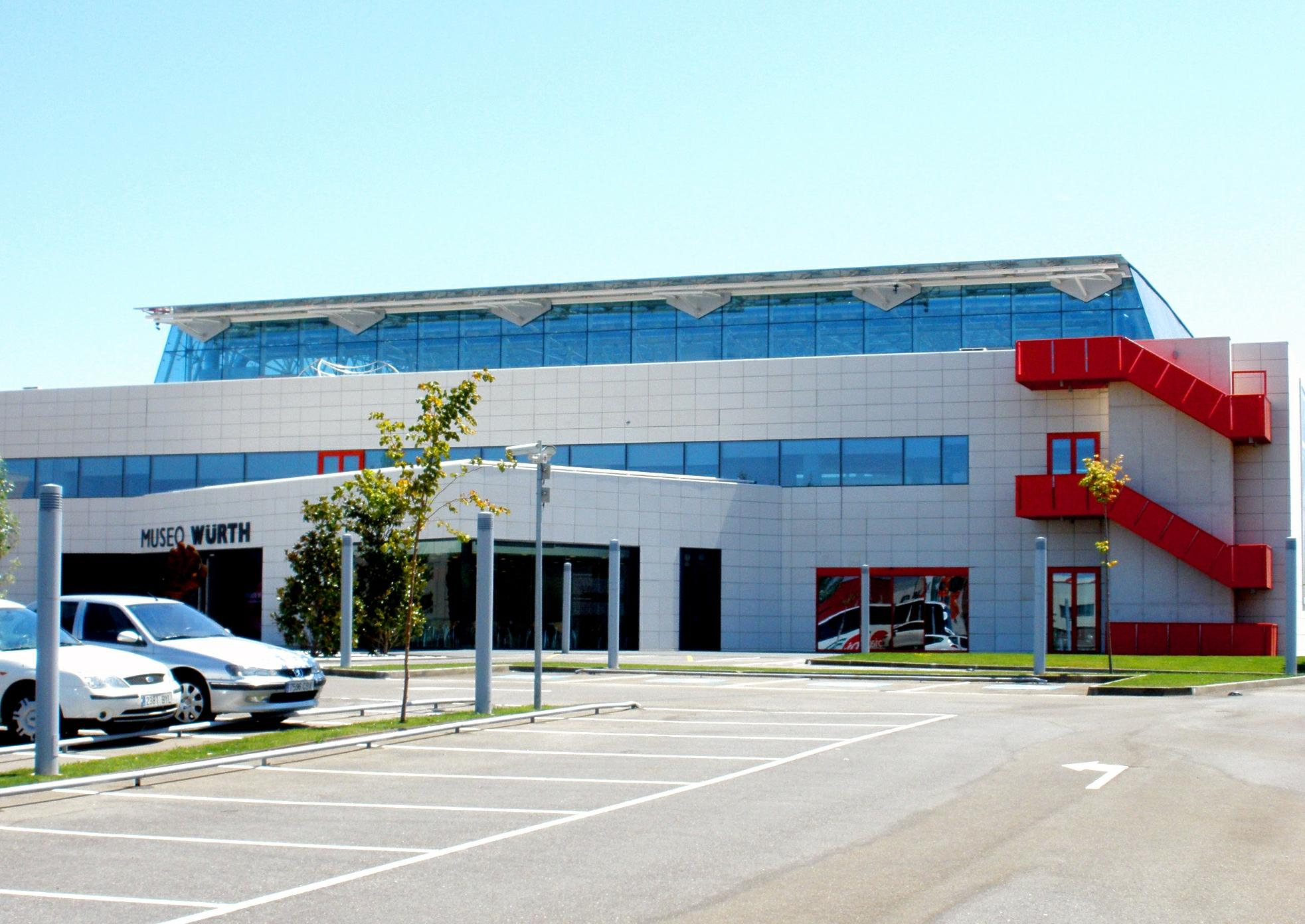 Museo Würth La Rioja (Agoncillo, La Rioja, España)